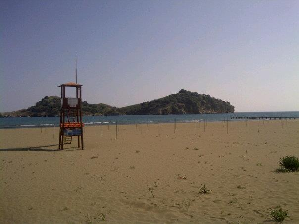 Beach